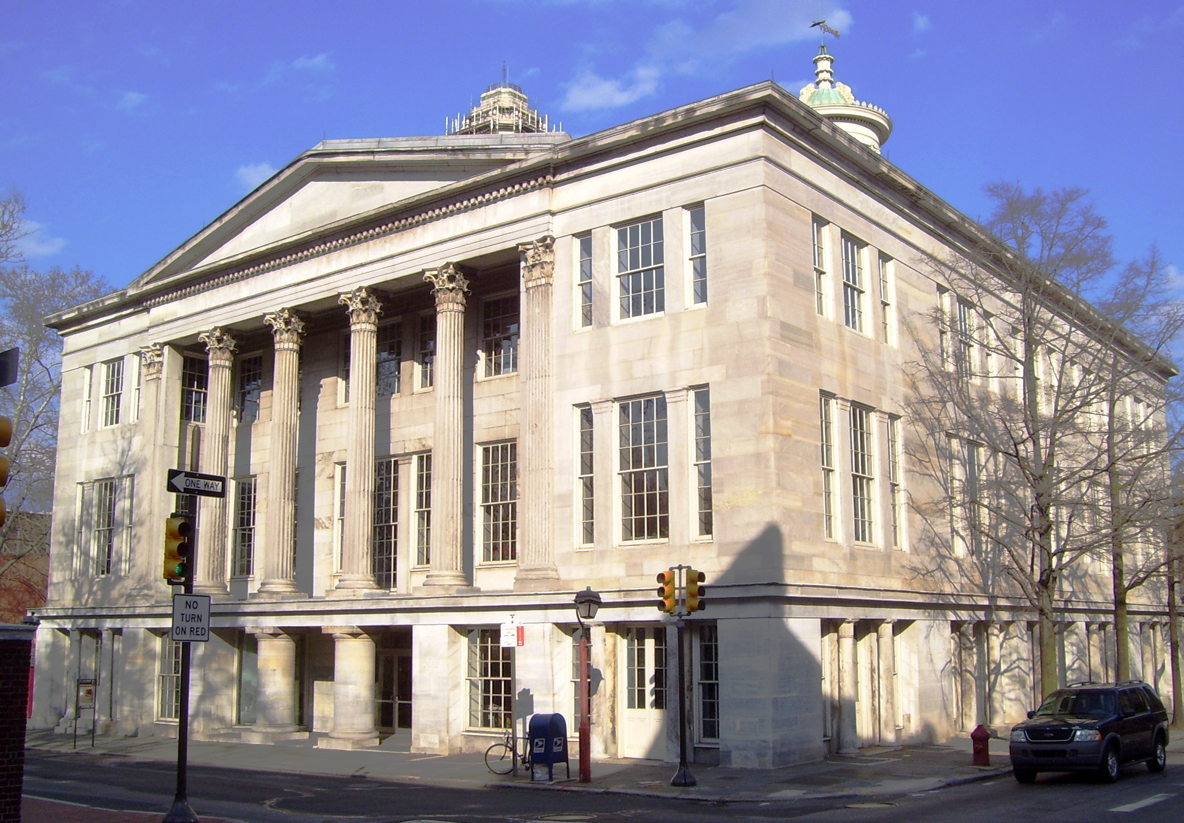 The Merchants' Exchange Building at the intersection of Walnut and S. Third Streets in the Old City neighborhood of Philadelphia, Pennsylvania was built in 1834 and was designed by William Strickland in the Greek revival style. The oldest stock exchange building in the United States, it is now the headquarters of the Independence National Historical Park. (Source: Historical marker at the building)